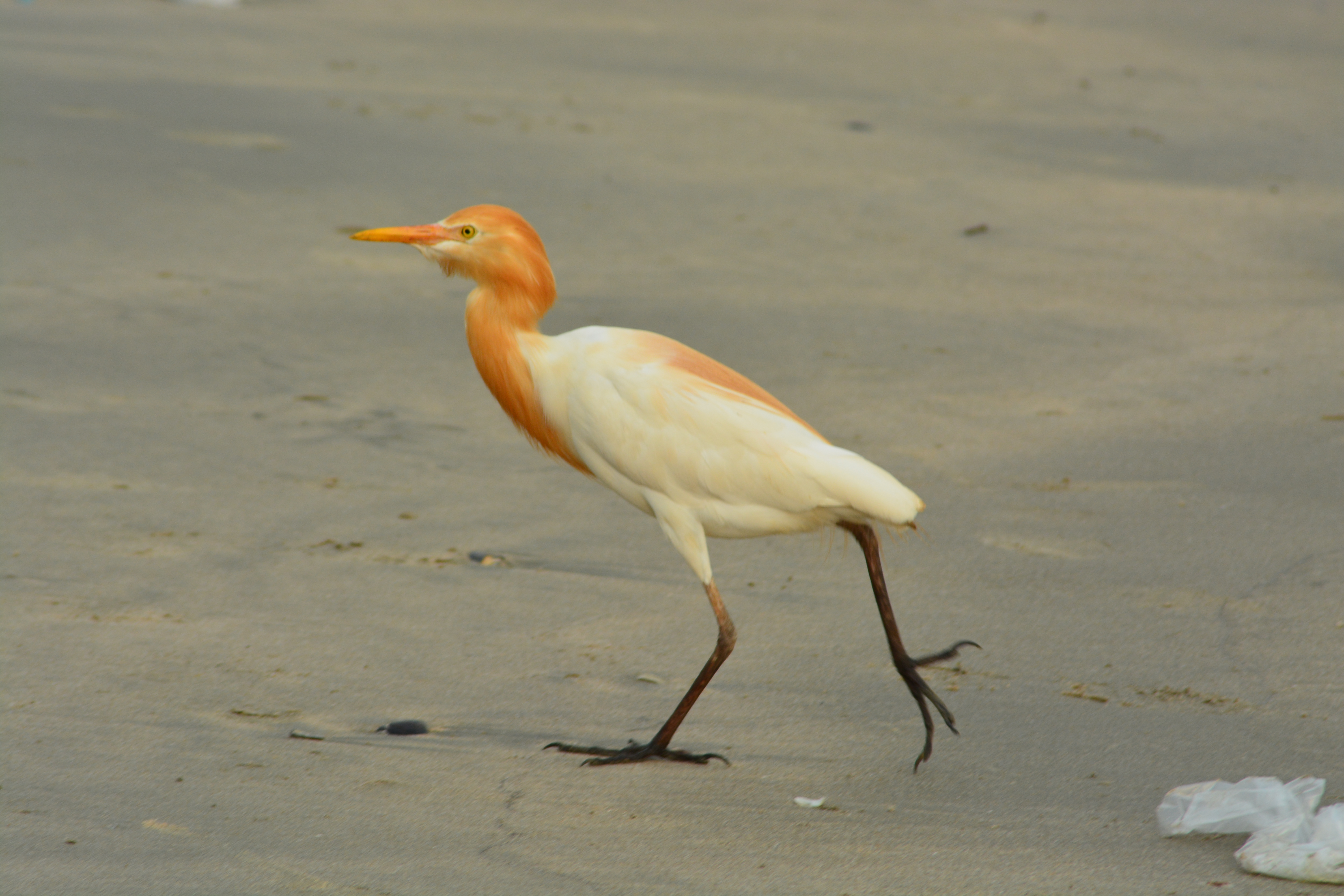 cattle egret at thalassery beach